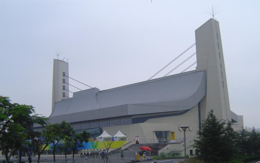 The Yingdong Natatorium of the Olympic Sports Center Gymnasium.